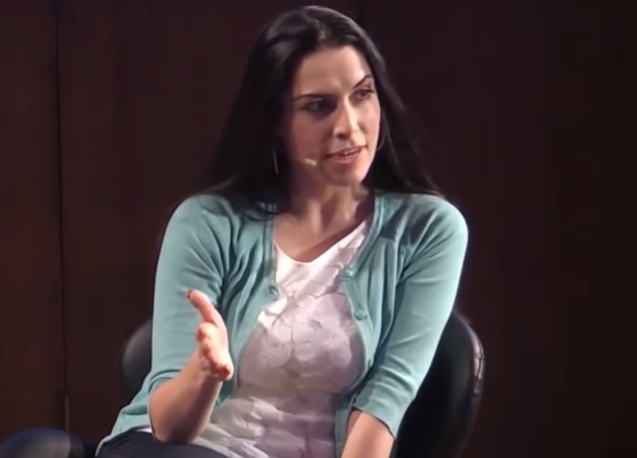 Professor Francesca Stavrakopoulou at Conway Hall in conversation with Rev. Giles Fraser and Dr Adam Rutherford, chaired by Samira Ahmed.